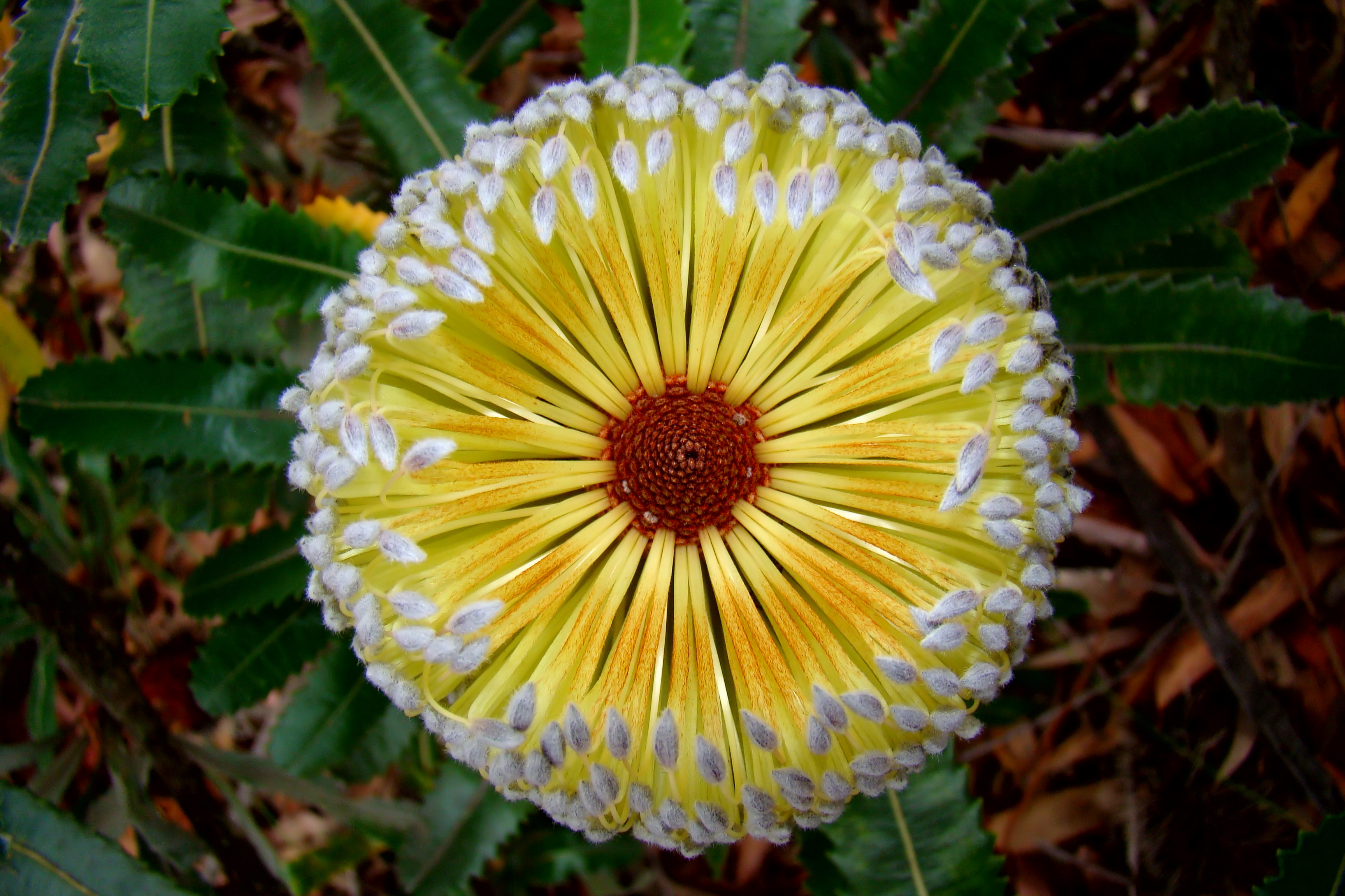 A saw banksia/old man banksia flowering cone (Banksia serrata), as seen from above. Photographed in the Blue Mountains, New South Wales, Australia.